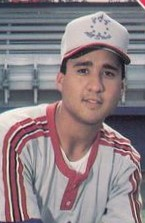 Image cropped from a baseball card of Xavier Hernandez from the 1988 Grand Slam South Atlantic League All-Stars set.